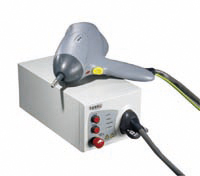 EDS Gun or ESD Simulator